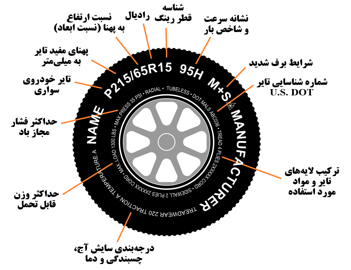 Symbols and codes in this diagram may vary based on the country they used in.